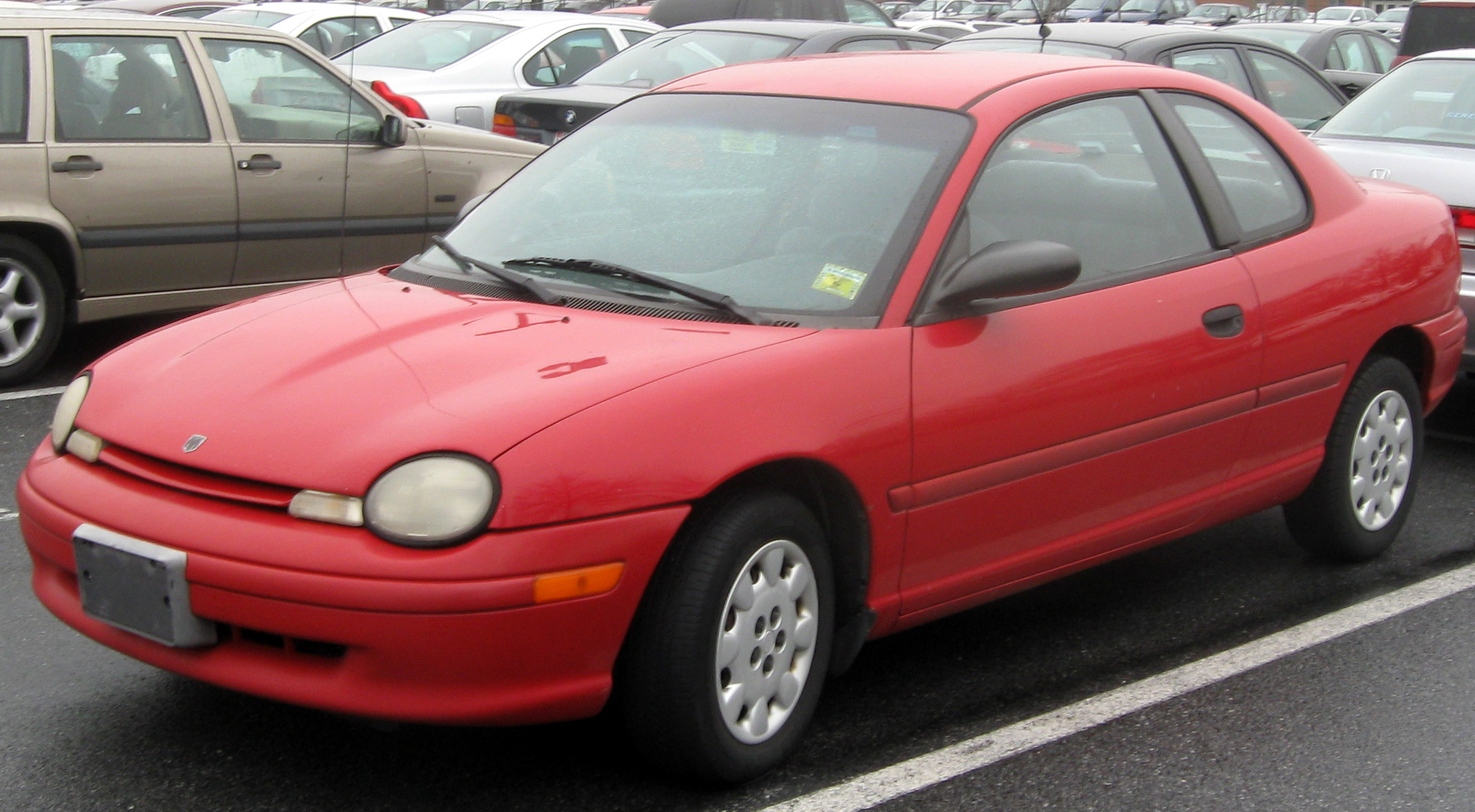 1995-1999 Dodge Neon photographed in College Park, Maryland, USA.